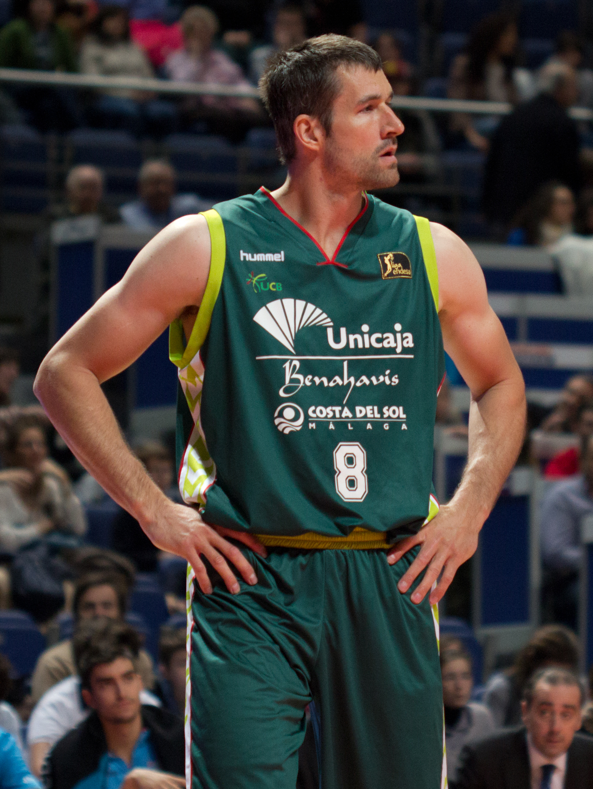 Andy Panko. Game Estudiantes vs Unicaja Málaga.